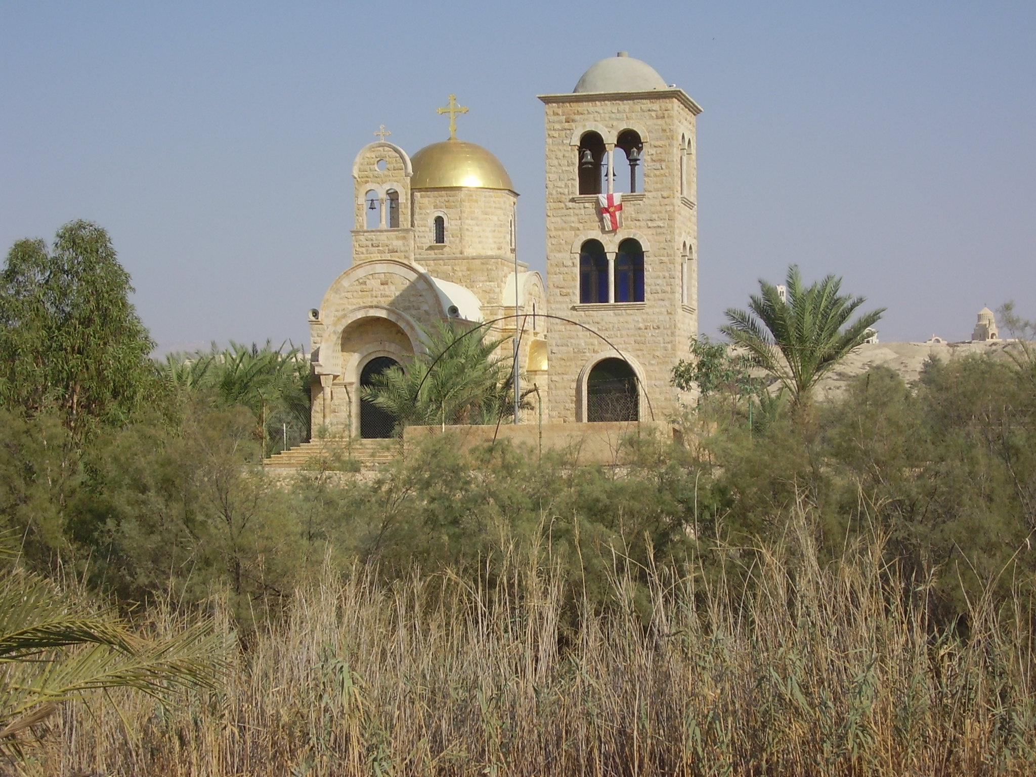 Qasr al - Yahud